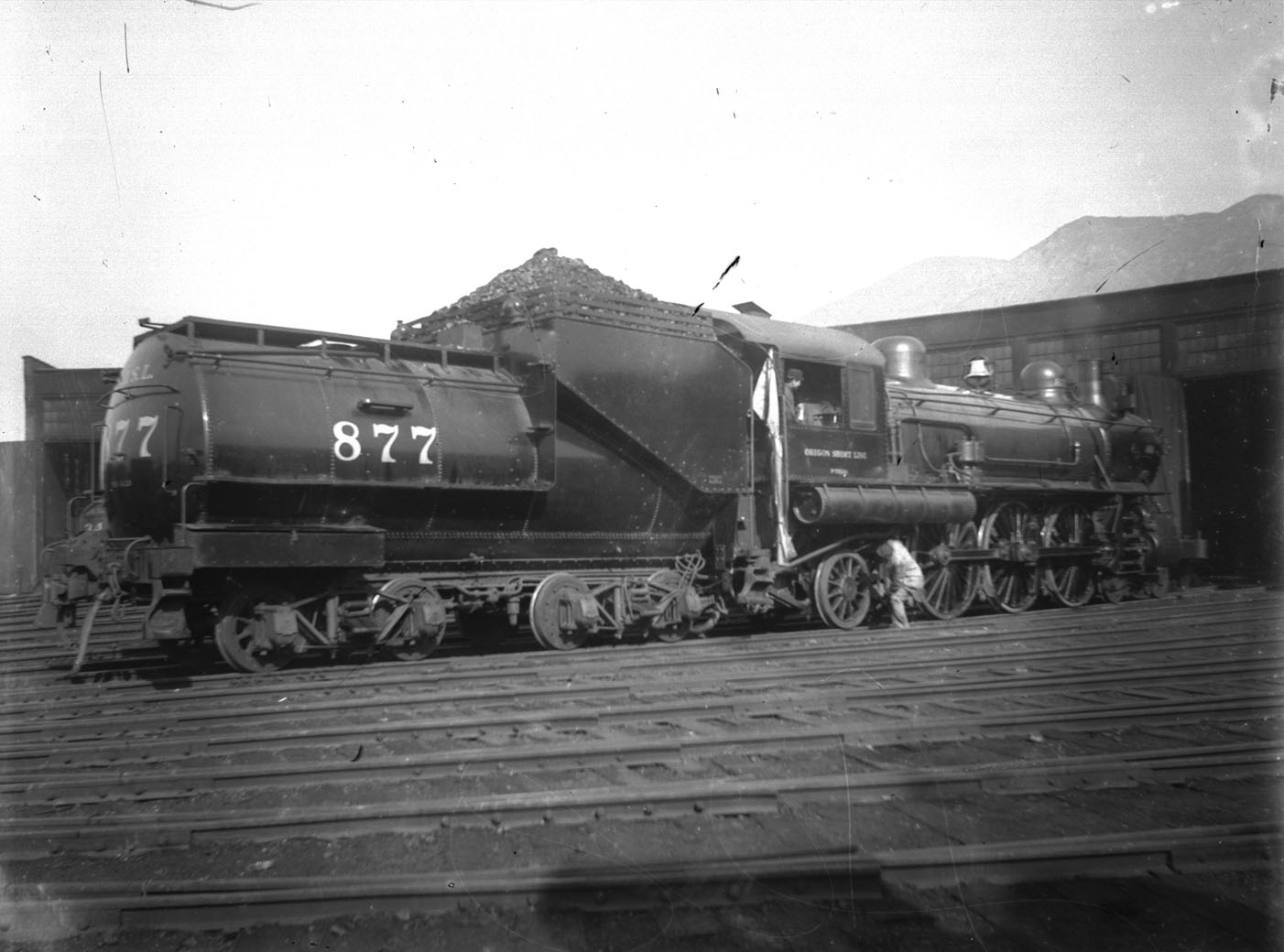 Oregon Short Line #877, circa 1906